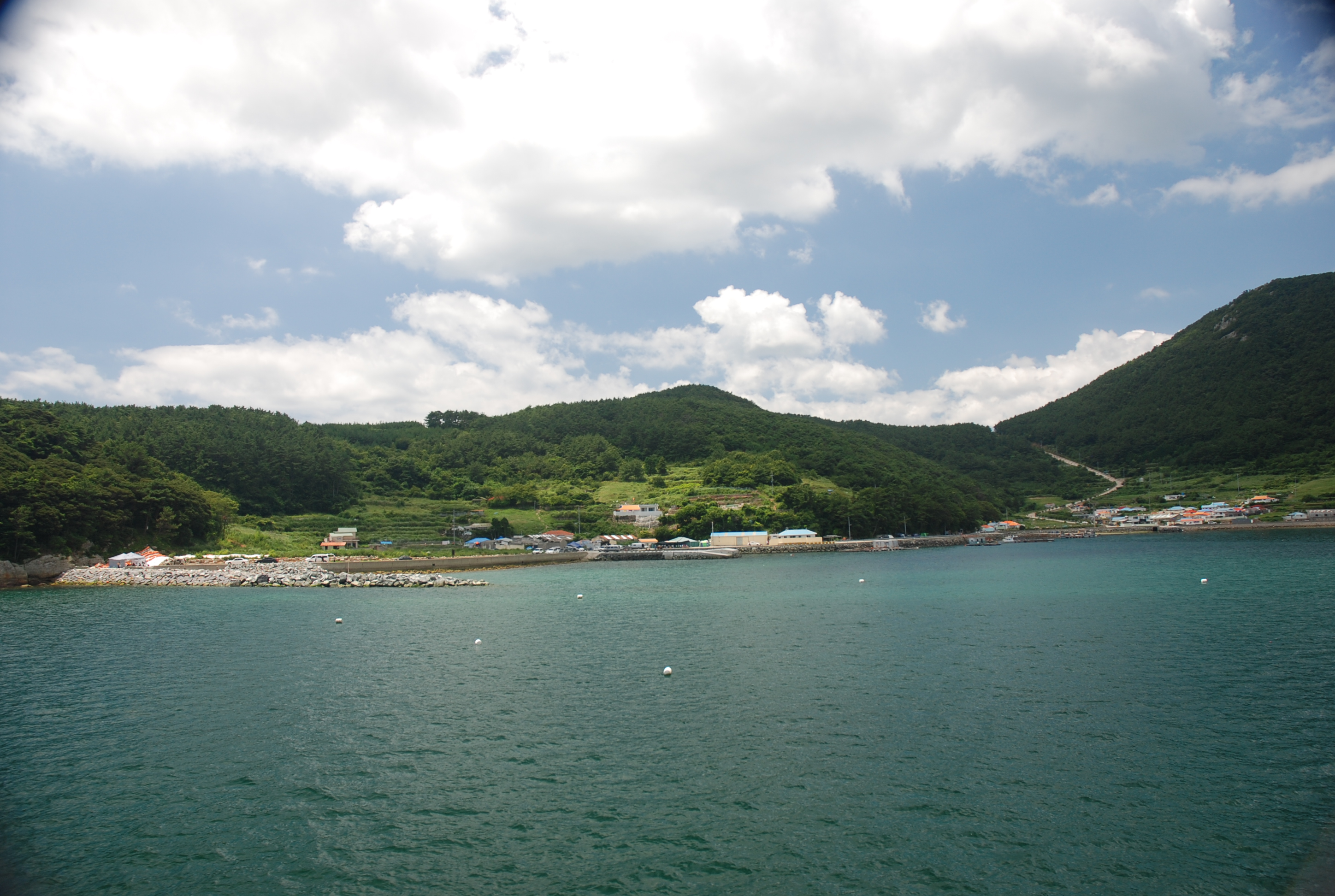 Chubongdo (Chubong Island) in Tongyeong, South Gyeongsang province, South Korea.